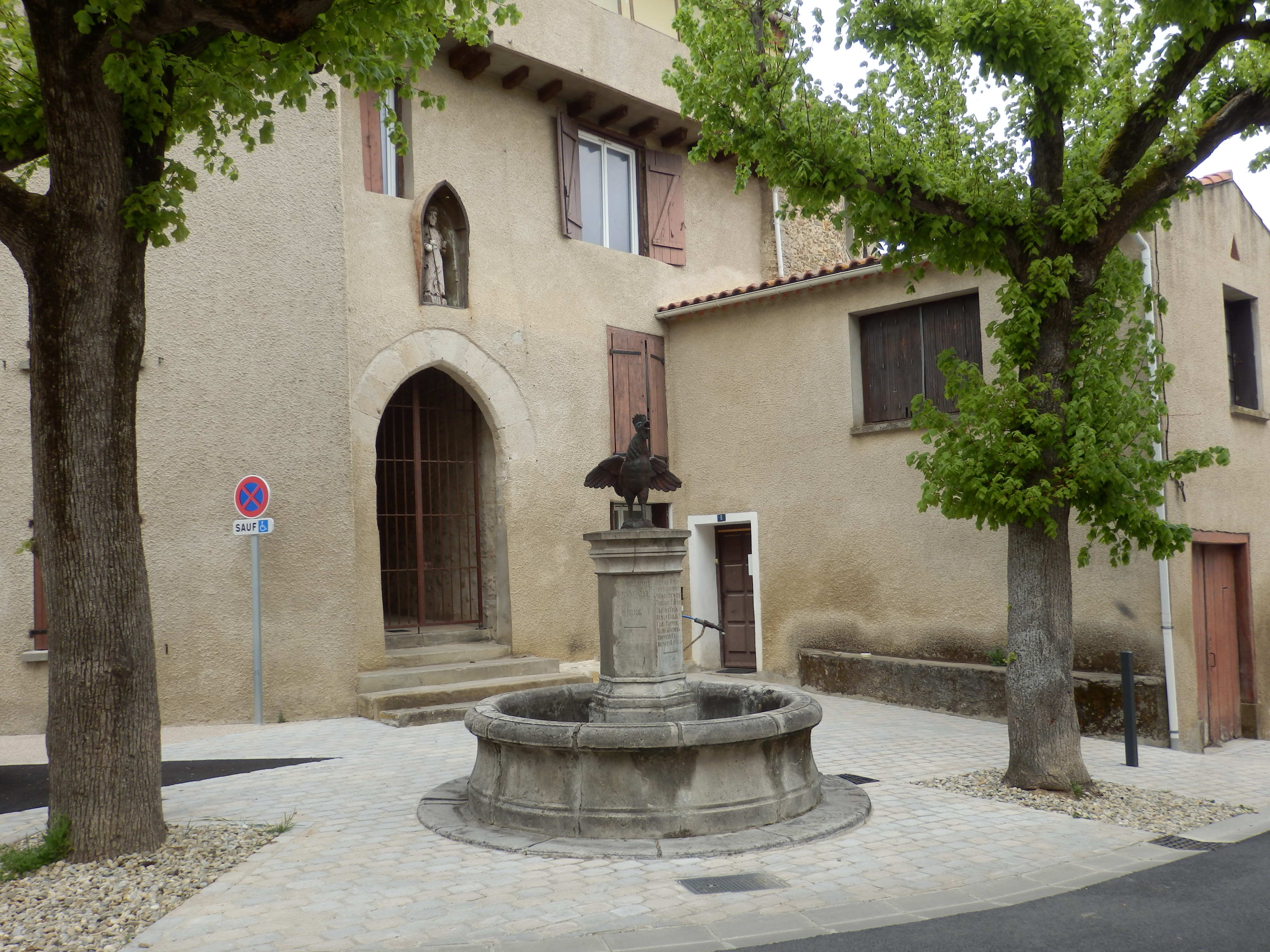 Fountain in La Digne-d'Aval, Aude, France